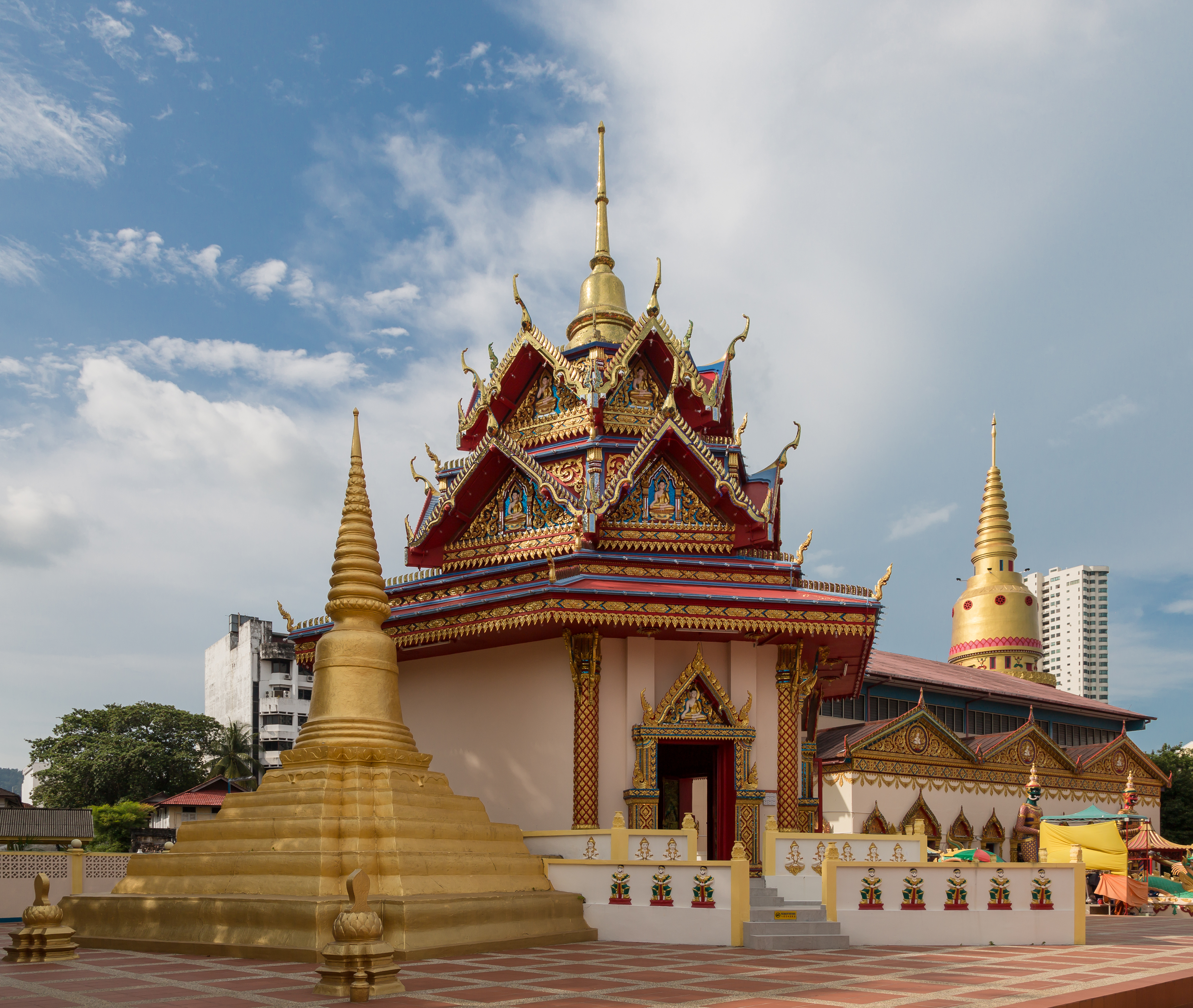 Penang, Malaysia: Wat Chaiya Mangkalaram Temple